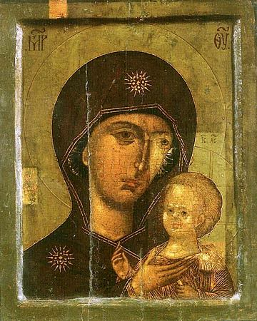 Our Lady Petrovskaya